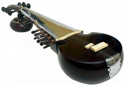 Mohan Veena, a modified Sarod developped by Radhika Mohan Maitra Vina, Veena, culture of India